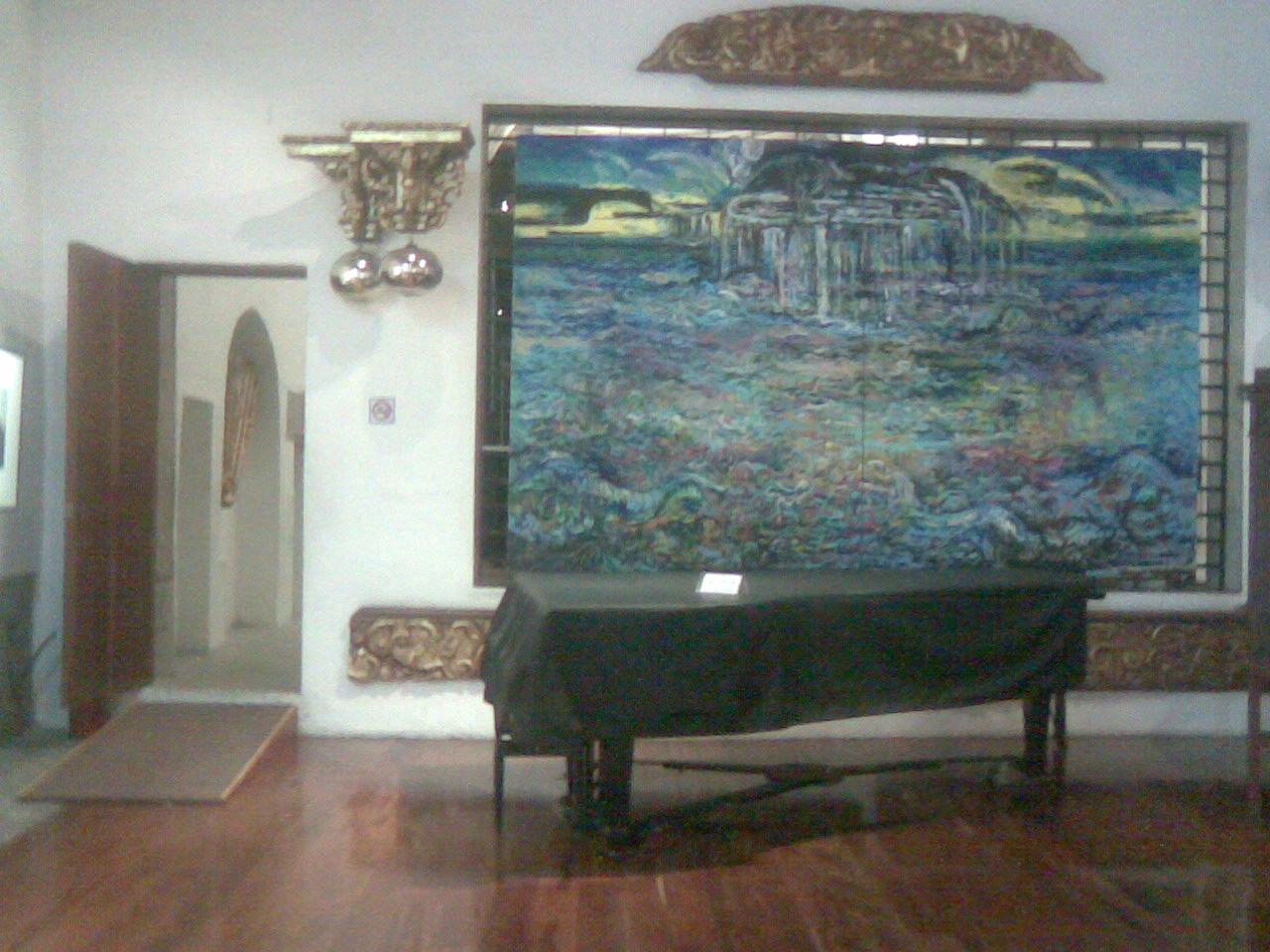 Grand piano inside Sotocoro's Ex-templo in UCSJ